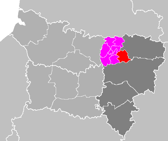 Maps of arrondissements and cantons of France